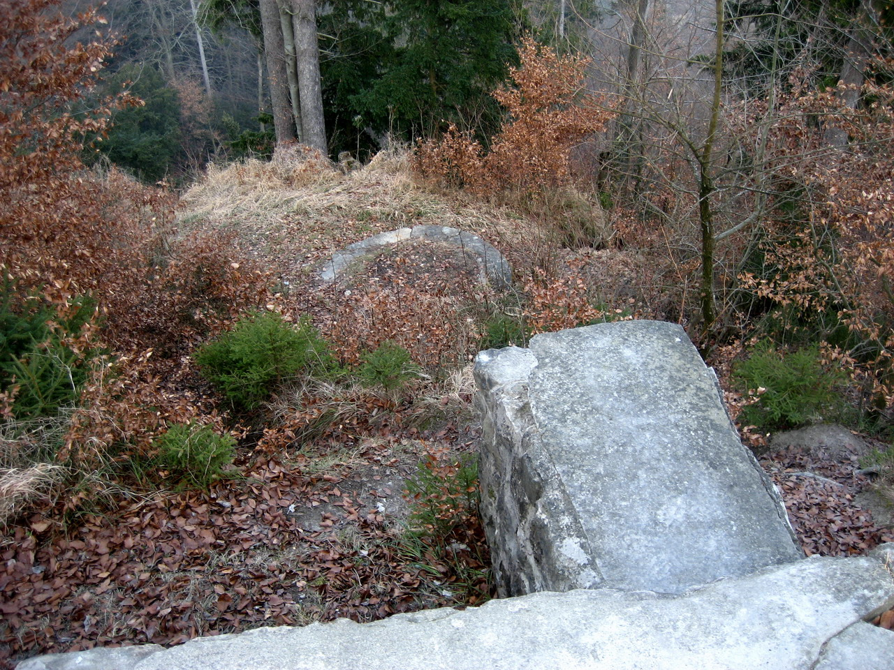 Zürich - Uetliberg : Friesenberg castle, Water well.